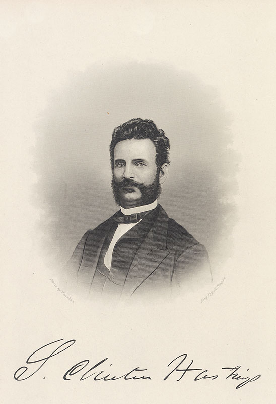 Portrait of lawyer and politician Serranus Clinton Hastings, engraved by John Chester Buttre, based on a photograph. Image courtesy of the Harvard Law School Library, Harvard University, Cambridge, Mass.